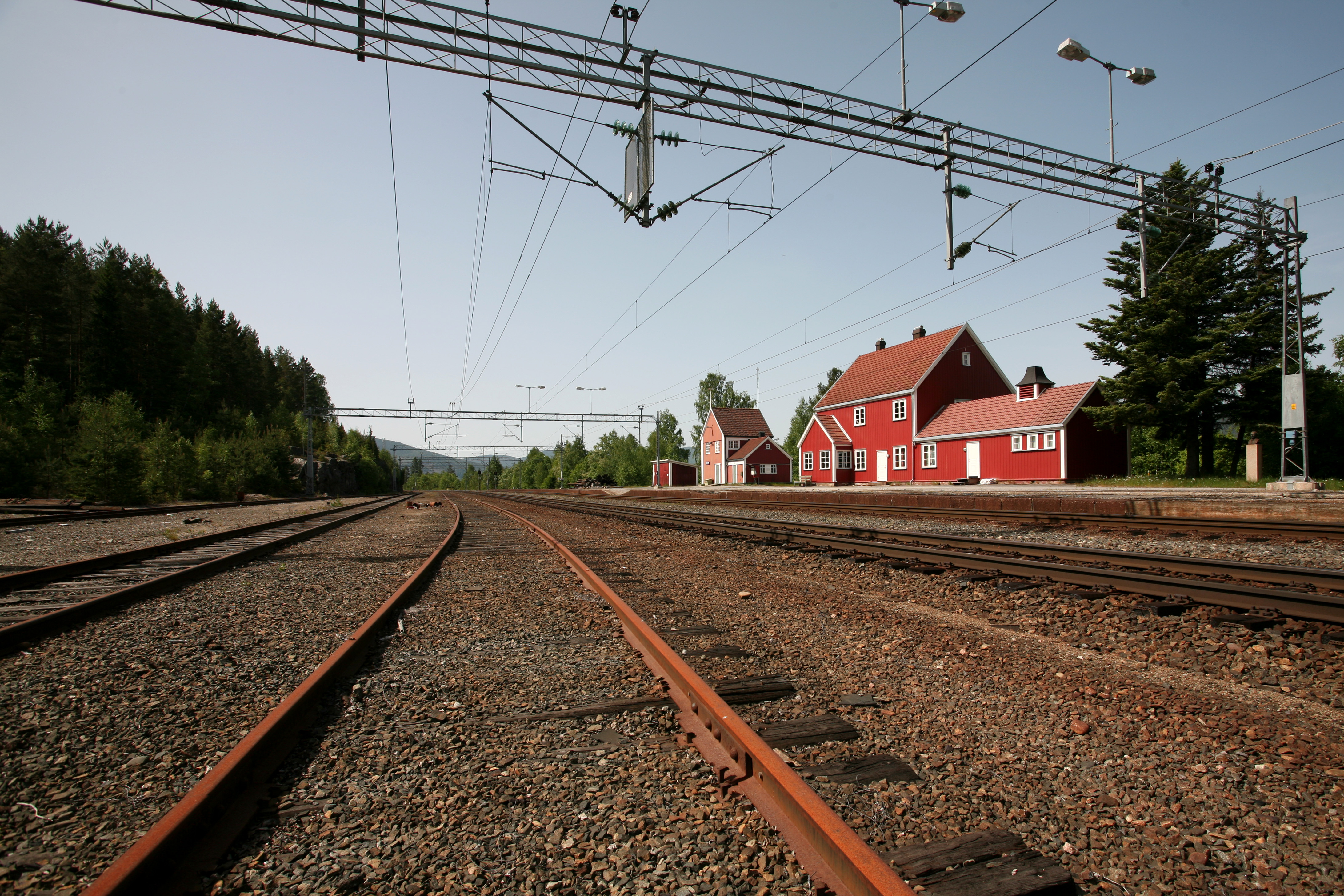 Picture of Hjuksebø Railway Station (Norway)